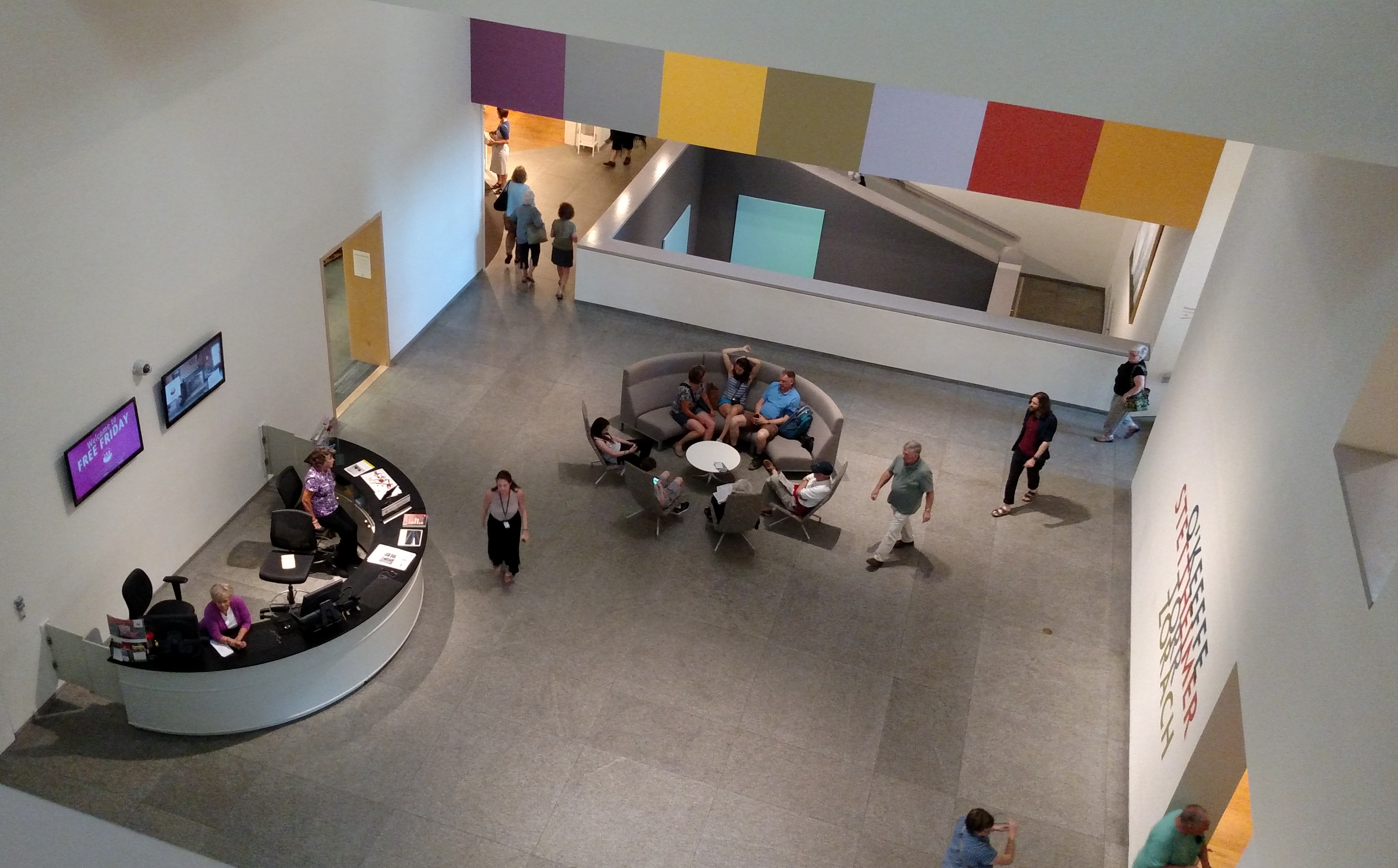 Portland Museum of Art